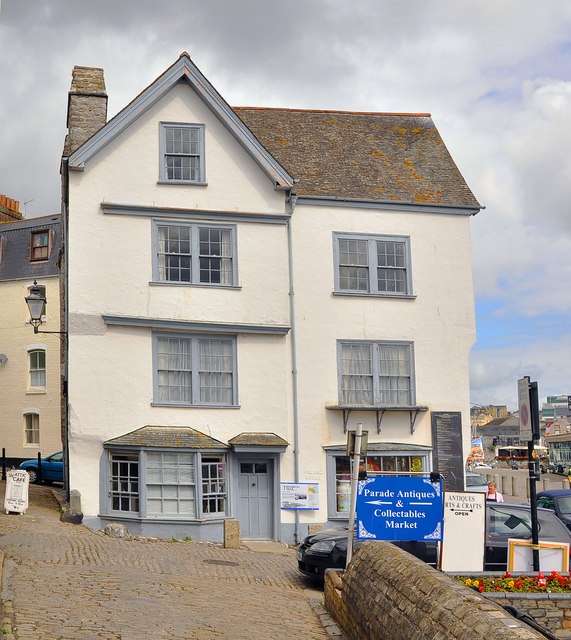 Island House - Plymouth Barbican Dating from around 1572 it is reputed that the Pilgrim Fathers were entertained in this house prior to their departure for the New World in 1620. A plaque on the wall lists the names of all those who sailed on the voyage. It is also said that a baby was born to one of the women just before her departure on the Mayflower.